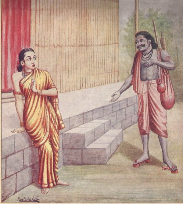 Rama is misled by the golden deer (demon Maricha in disguise) deep in the forest. Sita gets panicky listening to the false alarm raised by the dying deer, and forces Laxmana to go and help Rama. Meanwhile Rawana disguised as a mendicant comes to Sita who was all alone and carries her away.